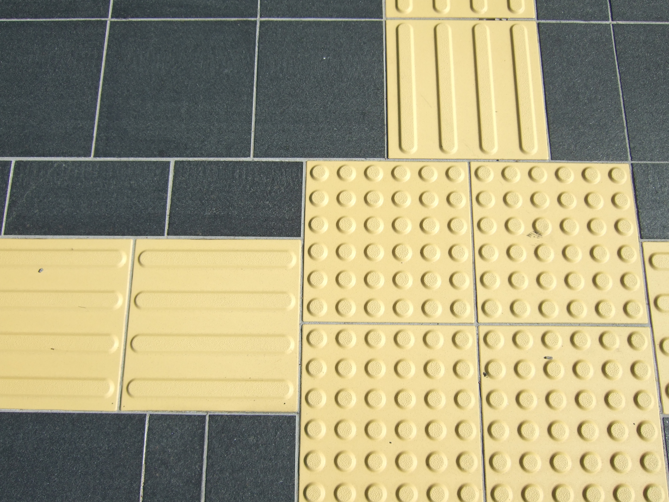 Ten-ji Block, tactile pavings, photographed in Hiroshima, Japan.